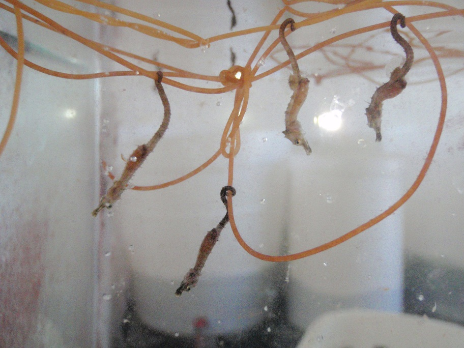 juveniles de H patagonicus